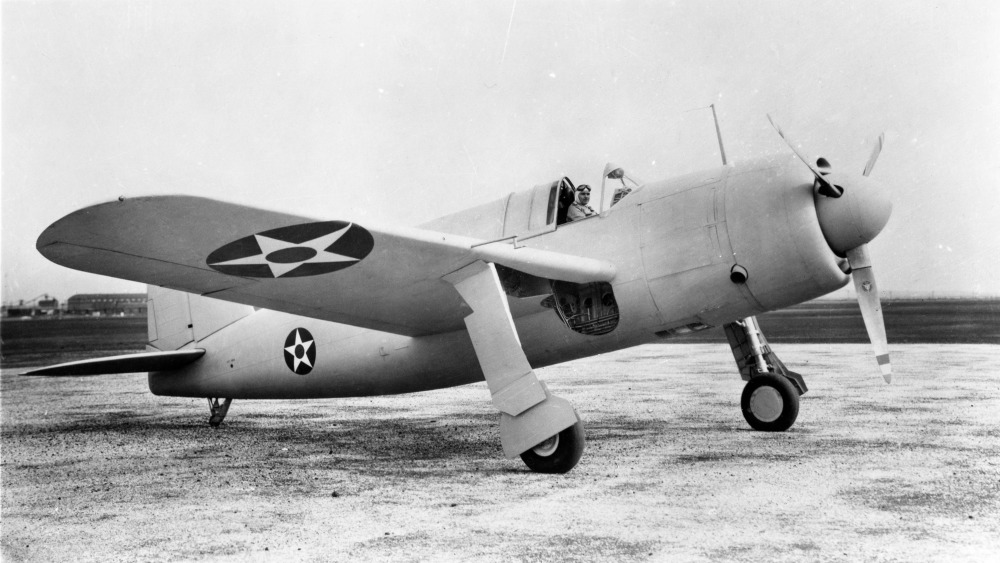 PictionID:40972147 - Title:Brewster XSB2A-1 - Catalog:15_002717 - Filename:15_002717.tif - Image from the Charles Daniels Photo Collection album "US Army Aircraft."----PLEASE TAG this image with any information you know about it, so that we can permanently store this data with the original image file in our Digital Asset Management System.----SOURCE INSTITUTION: San Diego Air and Space Museum Archive